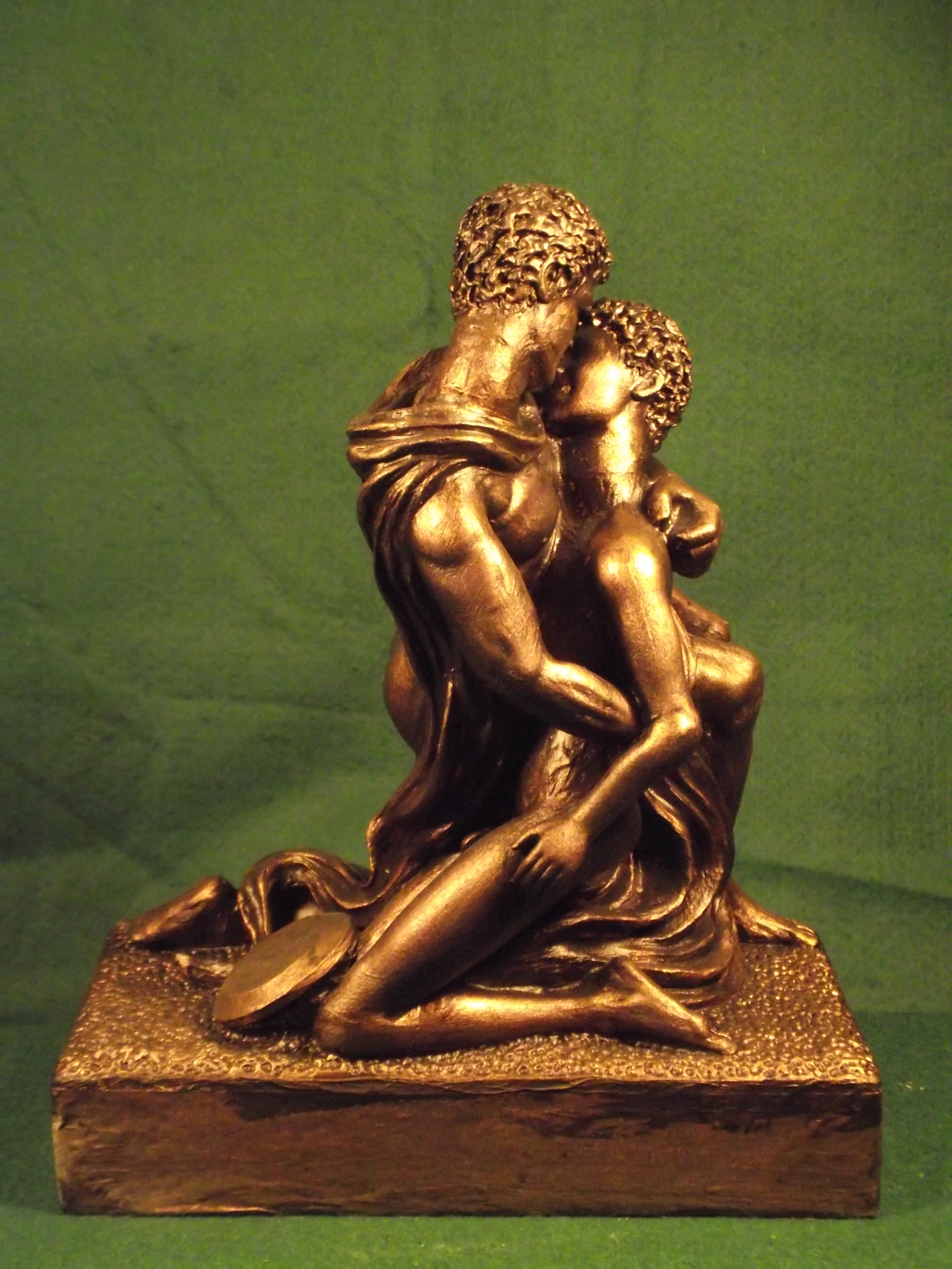 Apollo and Hyacinth. Composite constructed sculpture of historical figure(s) reputed to have had a same sex relationships. Made of various materials & found objects with thin veneer film of bronze patina-ted paint giving appearance of solid bronze. A Metaphor of the appearance of solidity of LGBT rights & equality in law in the UK. Created by artist Malcolm Lidbury for 2016 LGBT History & Art Project Cornwall UK.